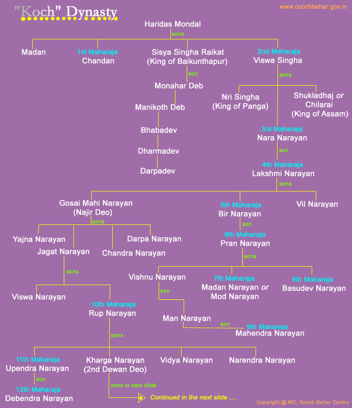 Koch Royal Dynasty